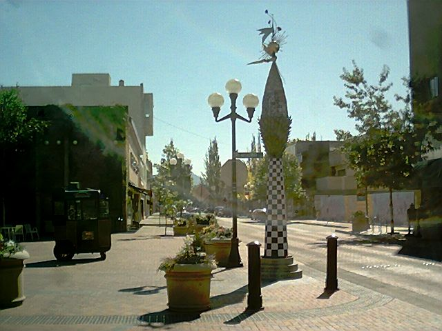 Broadway Avenue, Eugene, Oregon, Usa